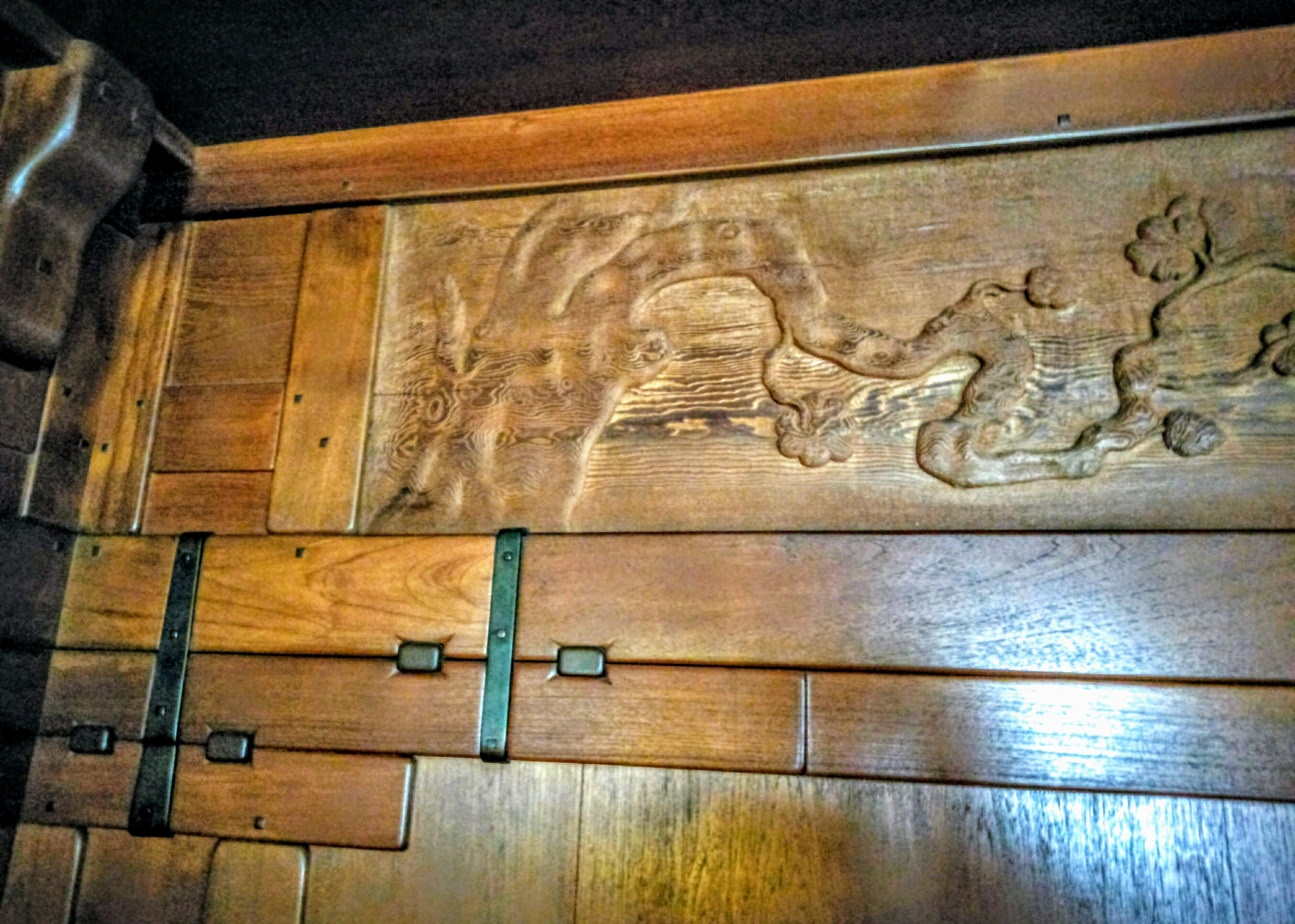 Carved woodwork at the Gamble House in Pasadena, California. Photo by Jim Heaphy.